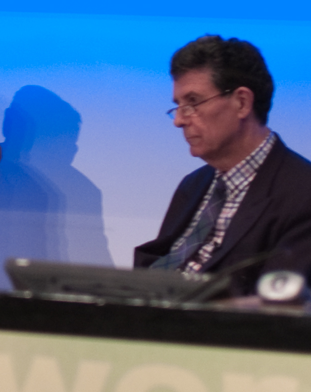 Sir Richard Dearlove (left), former Chief of MI6 and currently Master of Pembroke College, Cambridge; Professor Christopher Andrew (right), Official Historian of MI5 and President of Corpus Christi College